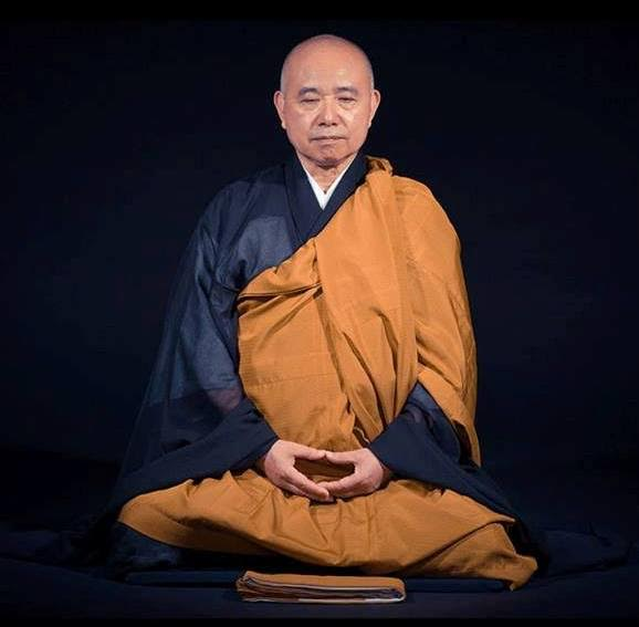 Master Tetsujo sitting in zazen